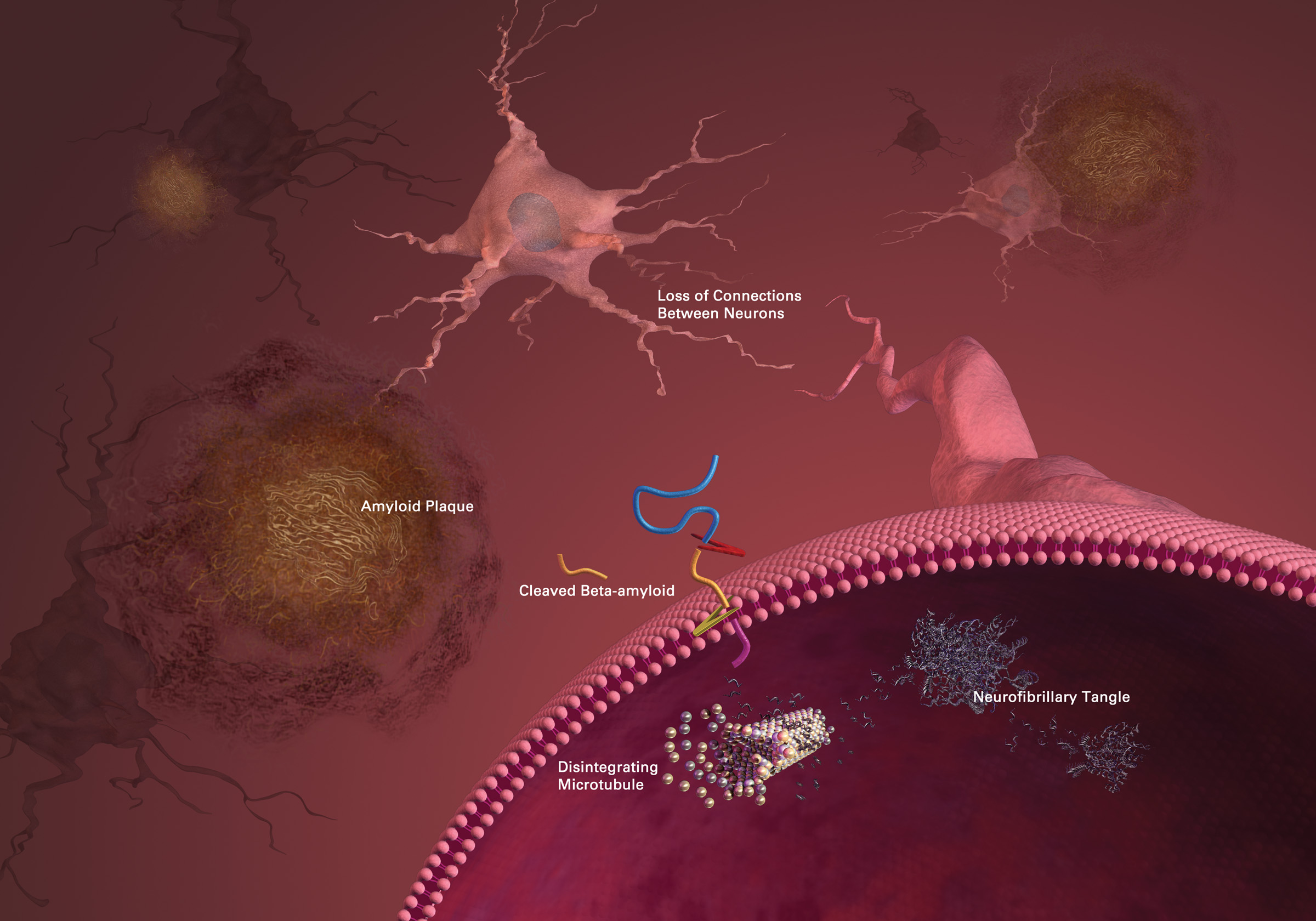 Characteristics of Alzheimer's disease